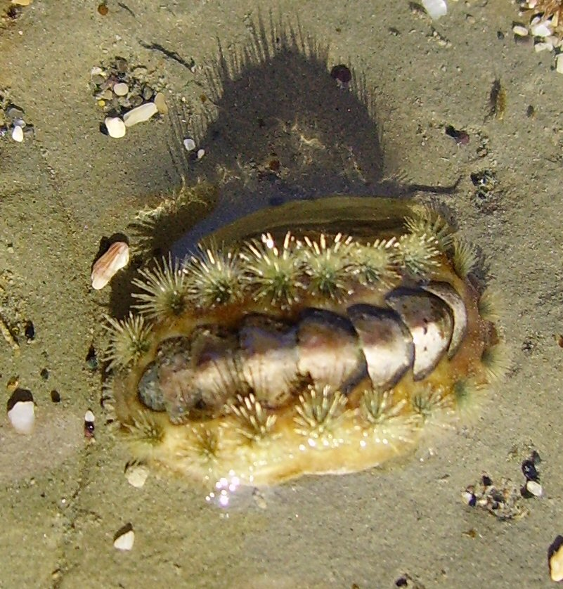 Acanthochitona zelandica from the Whangaparaoa Peninsula, New Zealand. This work has been released into the public domain by its author, Graham Bould. This applies worldwide.In some countries this may not be legally possible; if so:Graham Bould grants anyone the right to use this work for any purpose, without any conditions, unless such conditions are required by law. .